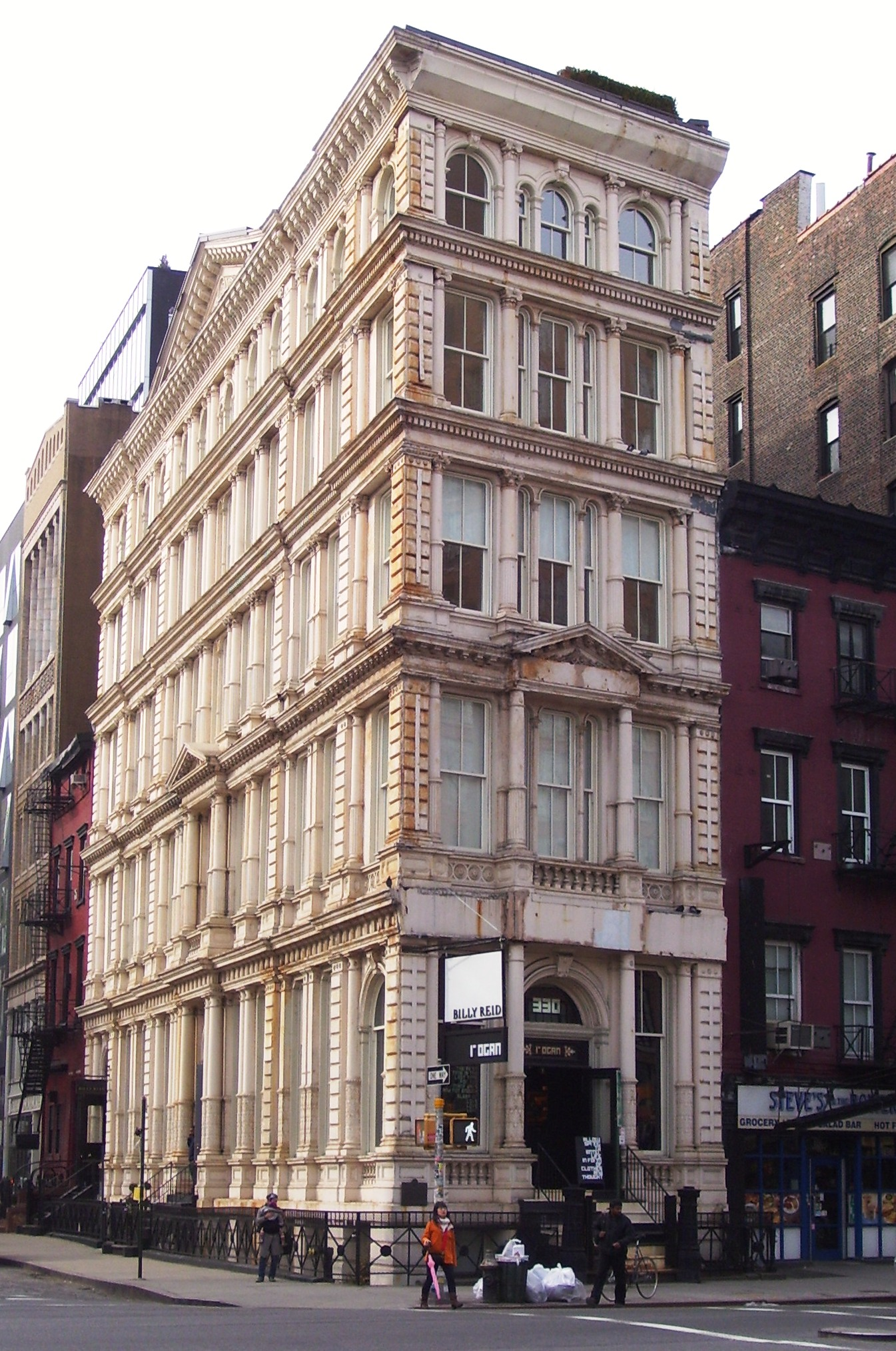 The building at 330 Bowery and the corner of Bond Street in Manhattan, New York City, was built in 1874-1874, originally as the Atlantic Savings Bank Building, then became the Bond Street Savings Bank Building. It was then turned into the Bouwerie Lane Theatre; as of 2010, it is a retail store. The building was designed by Henry Engelbert. (source=AIA Guide to NYC, 4th ed.)